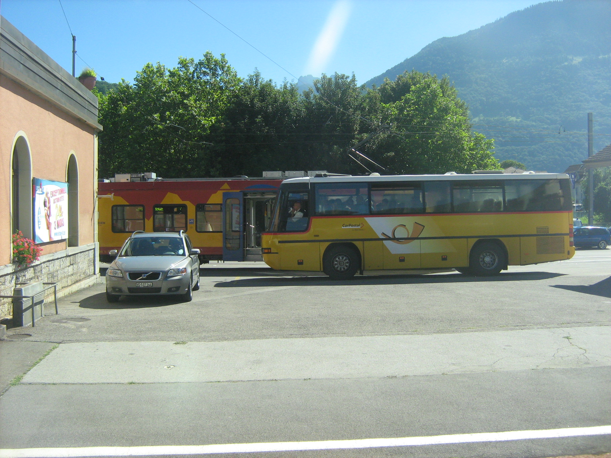 A postal bus for Les Plans-sur-Bex and a narrow gauge regional train for Villars VD wait outside the railway station in Bex for the arrival of the InterRegio Brig-Geneva train.